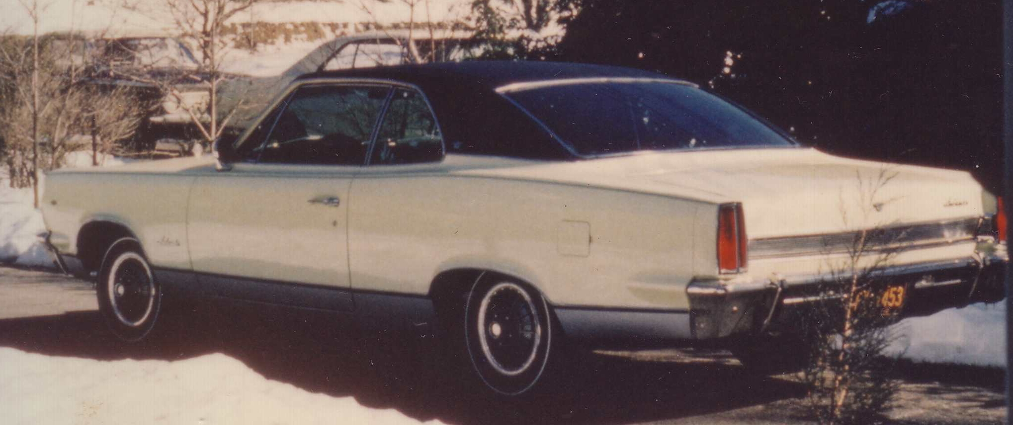 1967 AMC (American Motors Corporation) Ambassador DPL. The top-of-the-line two-door hardtop model finished in "Apollo Yellow" (paint code: P-25) with optional black vinyl roof cover, and the exclusive for the DPL models, "Satin Chrome" (paint code: P-42) accent on the lower body (replacing the standard full-length stainless steel rocker panel moldings). This car also has the optional "Turbo-Cast" wheel covers and is fitted with Firestone Wide-Oval, size F70x14 thin white stripe tires. This picture was taken with snow on the ground in Maryland.